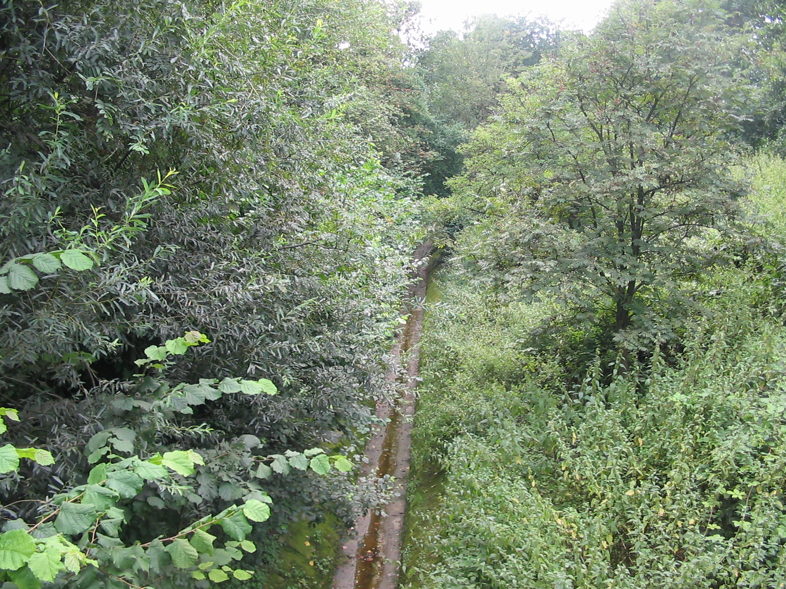 Pferdebach in Witten from bridge south of FEZ